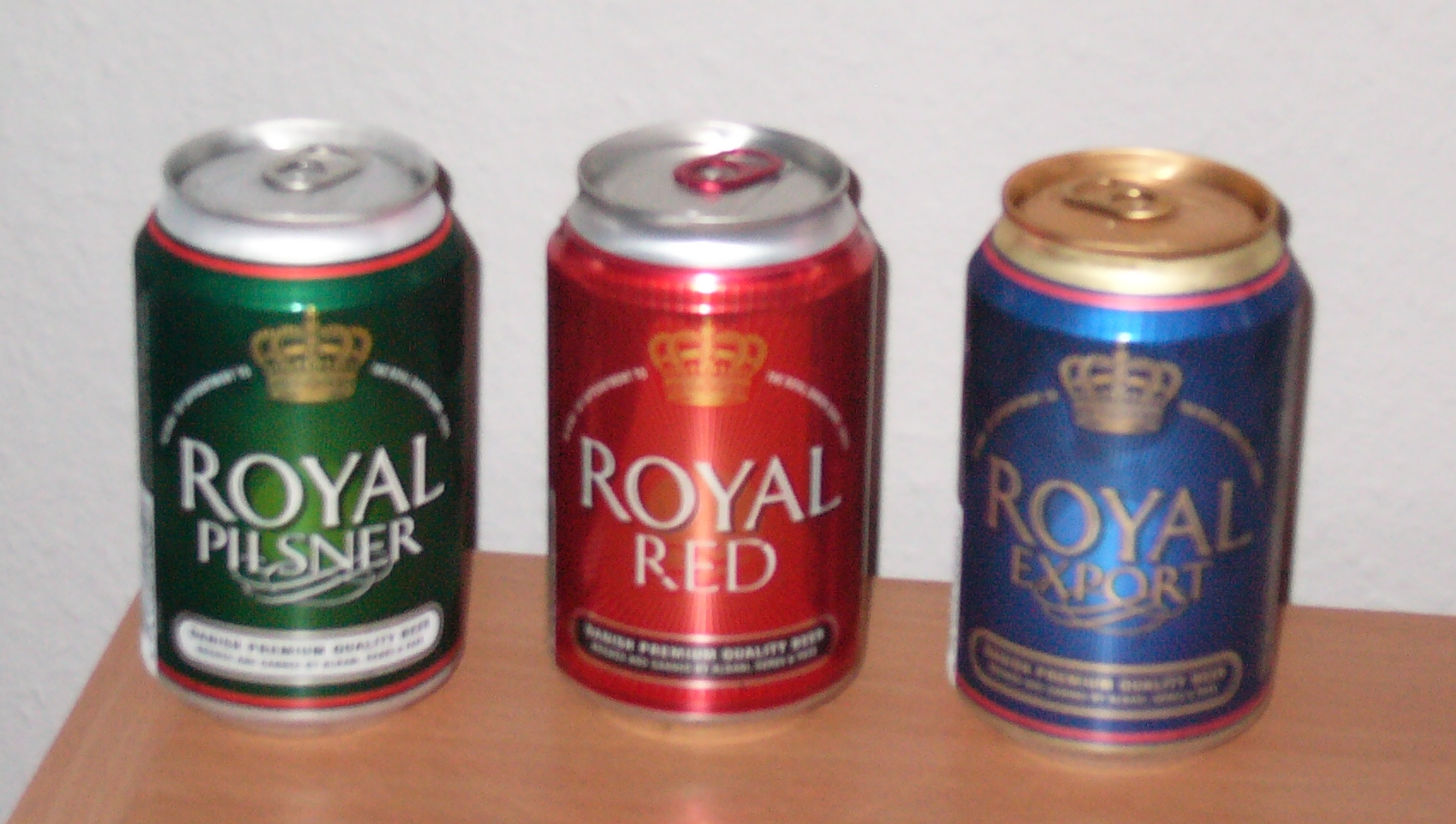 Three types of Ceres Royal beers.